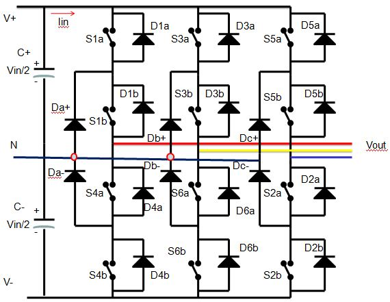 Three Phase Voltage Source Inverter